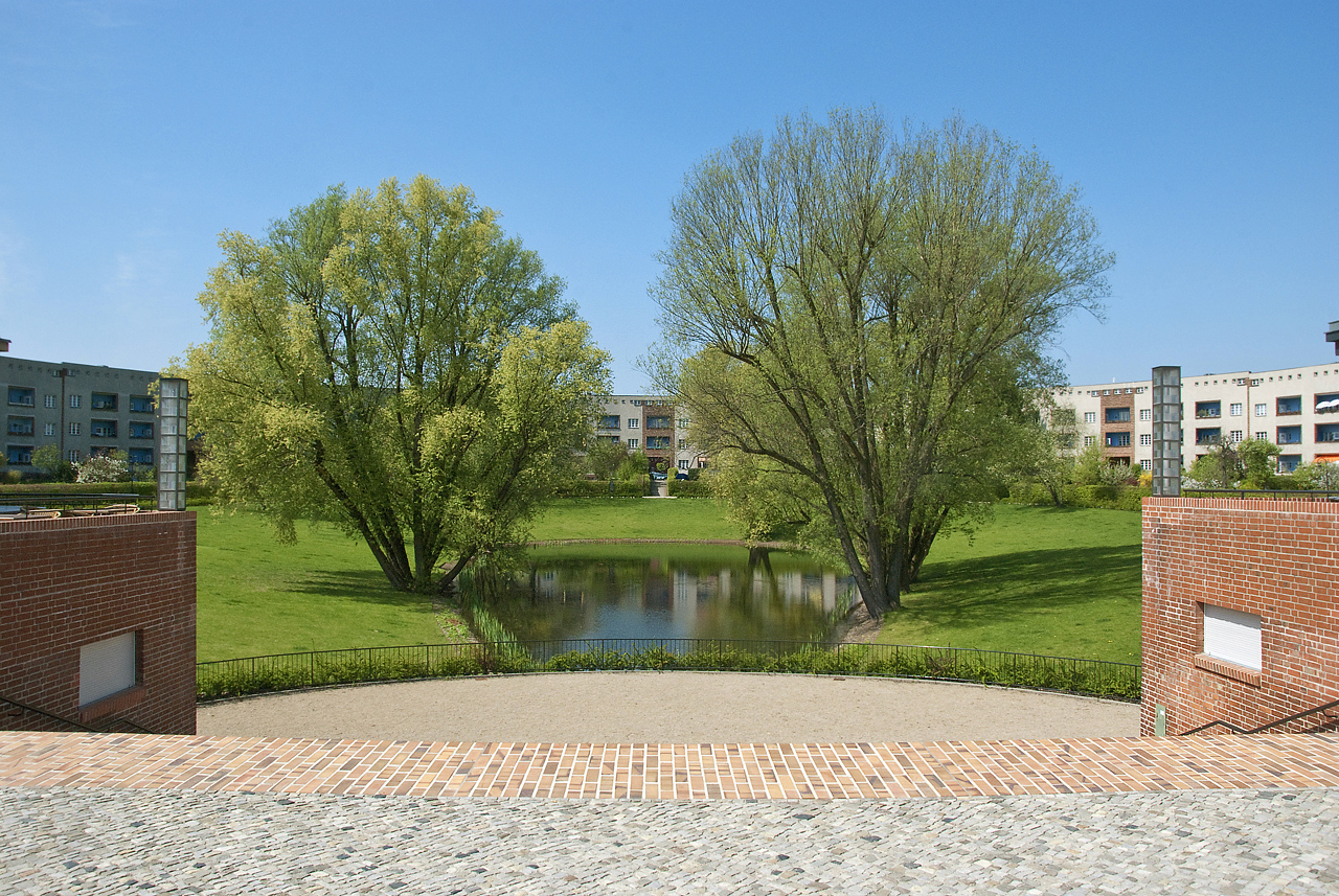 UNESCO World Heritage "Hufeisensiedlung" estate in Berlin-Britz, view from the central staircase after restoration 2013; for higher resolution or commercial purposes please contact the author .